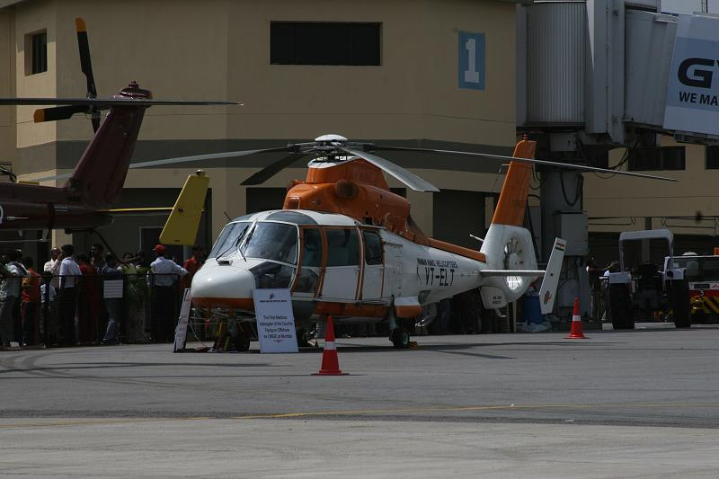 Aerospatiale Dauphin - Pawan Hans Medical Reconnaissance